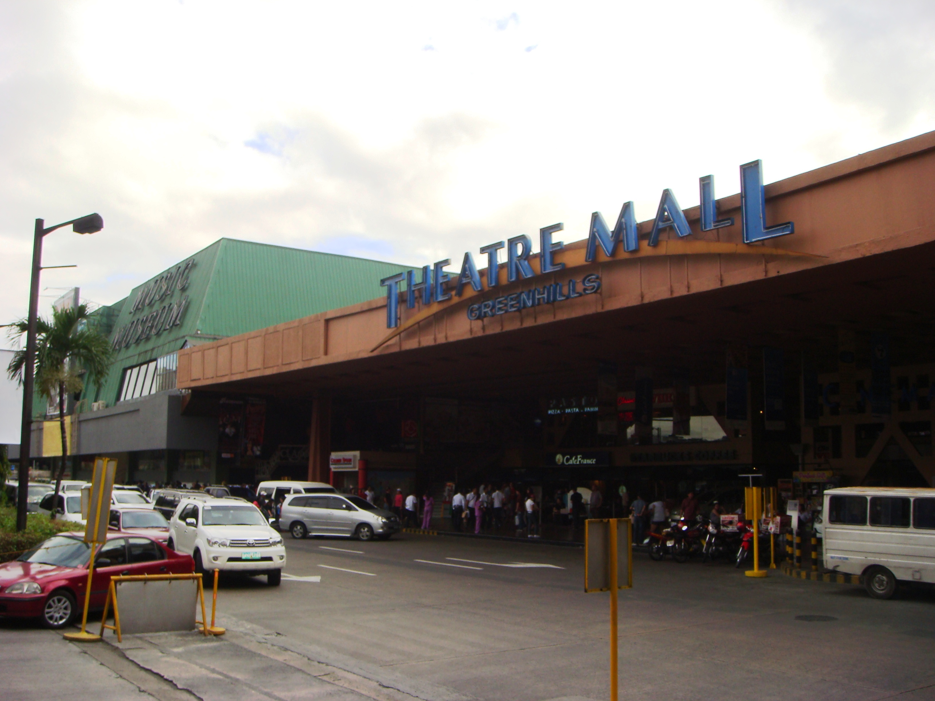 Greenhills Theatre Mall and Music Museum